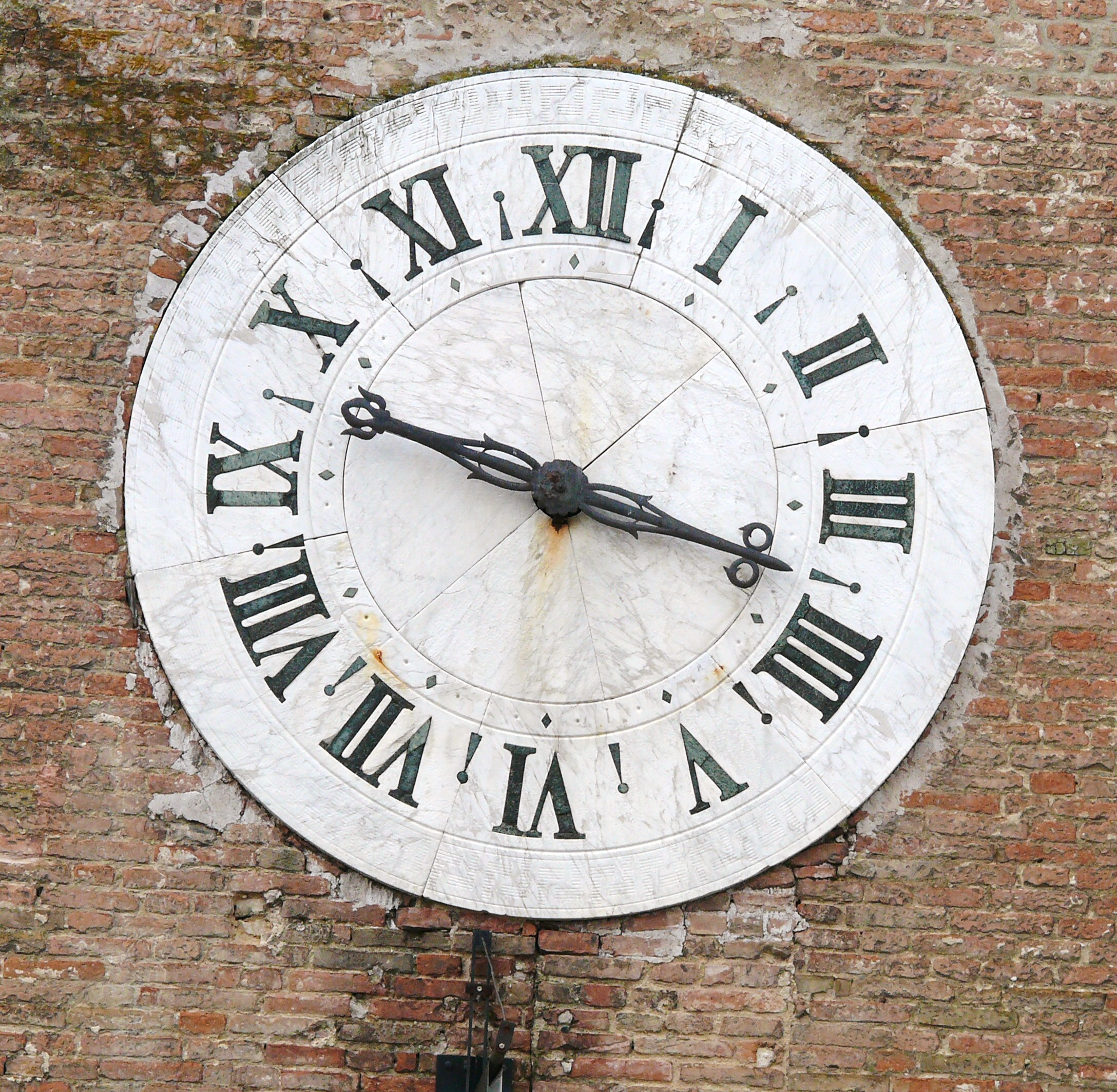 tower clock with only a hour hand (1643 by Sallustio Barili)